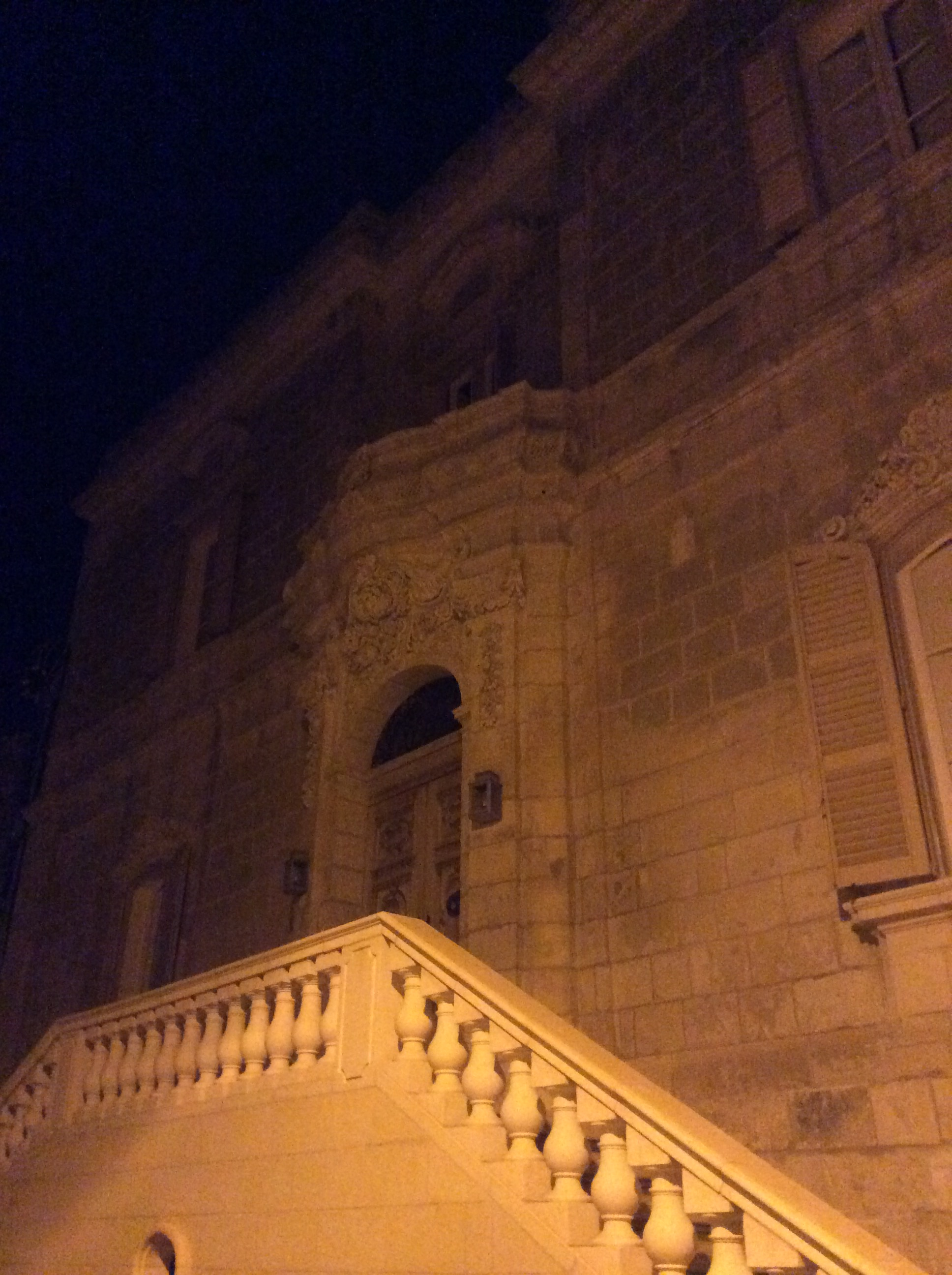 Palazzo Nasciaro at Naxxar, Malta